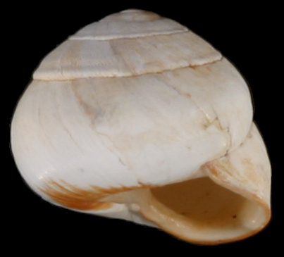 Photo of shell of Sphincterochila candidissima. Locality: Malta: island of Malta, Mistra village. Date: March 1986.